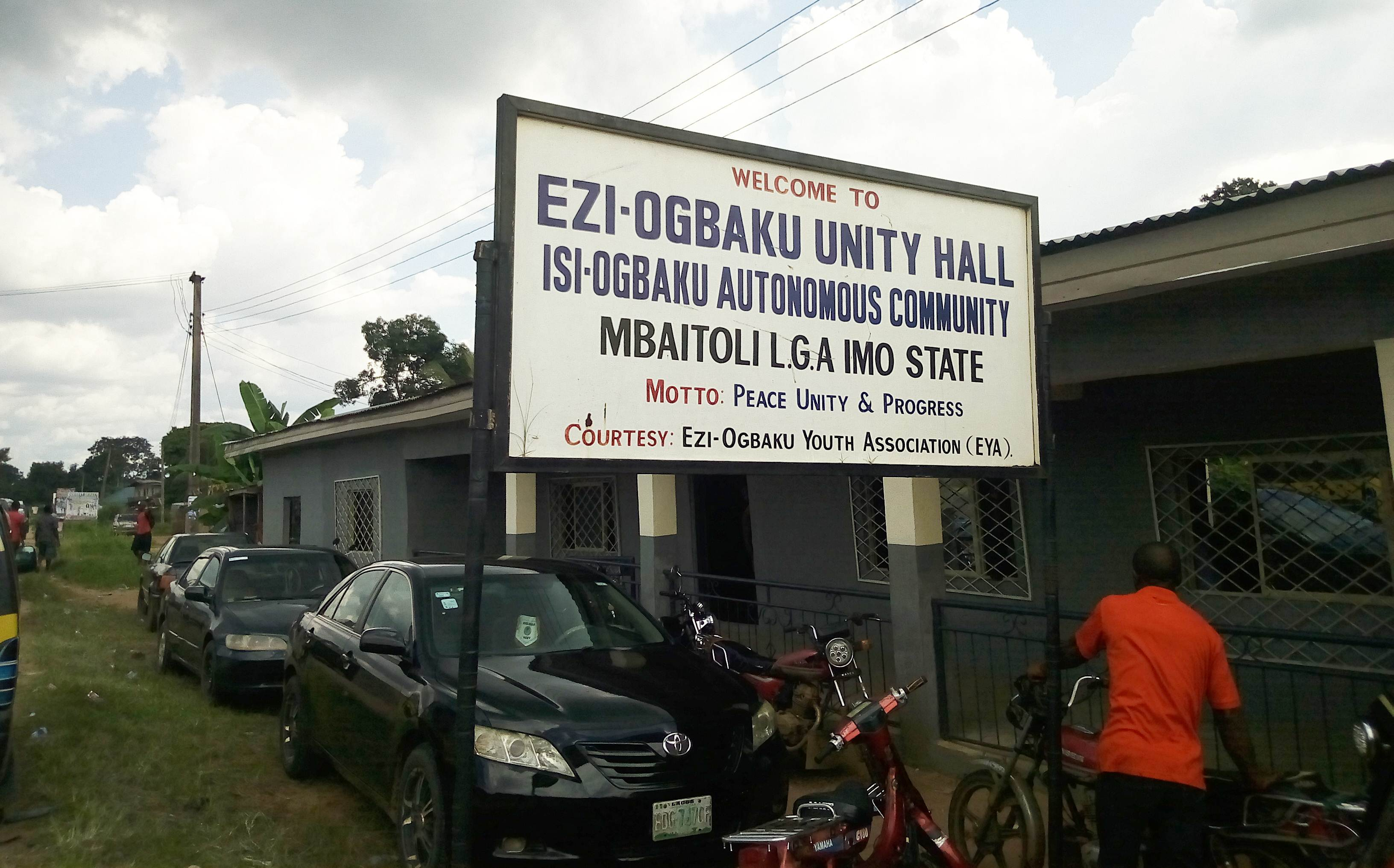 Ezi ogbaku unity hall isi ogbaku autonomous community